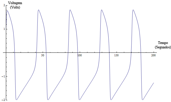 V(t) Time domain graph of Fitzhugh-Nagumo model with I=.5, a=.7 b=.8 tau=12.5